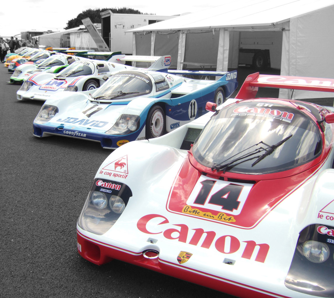 Four customer Porsche 956s (with three 962Cs in the background). The Canon-sponsored car in the foreground is the Richard Lloyd Racing-modified 956-106B. Taken (at the 2007 Silverstone Classic) and modified (background desaturated) by myself.